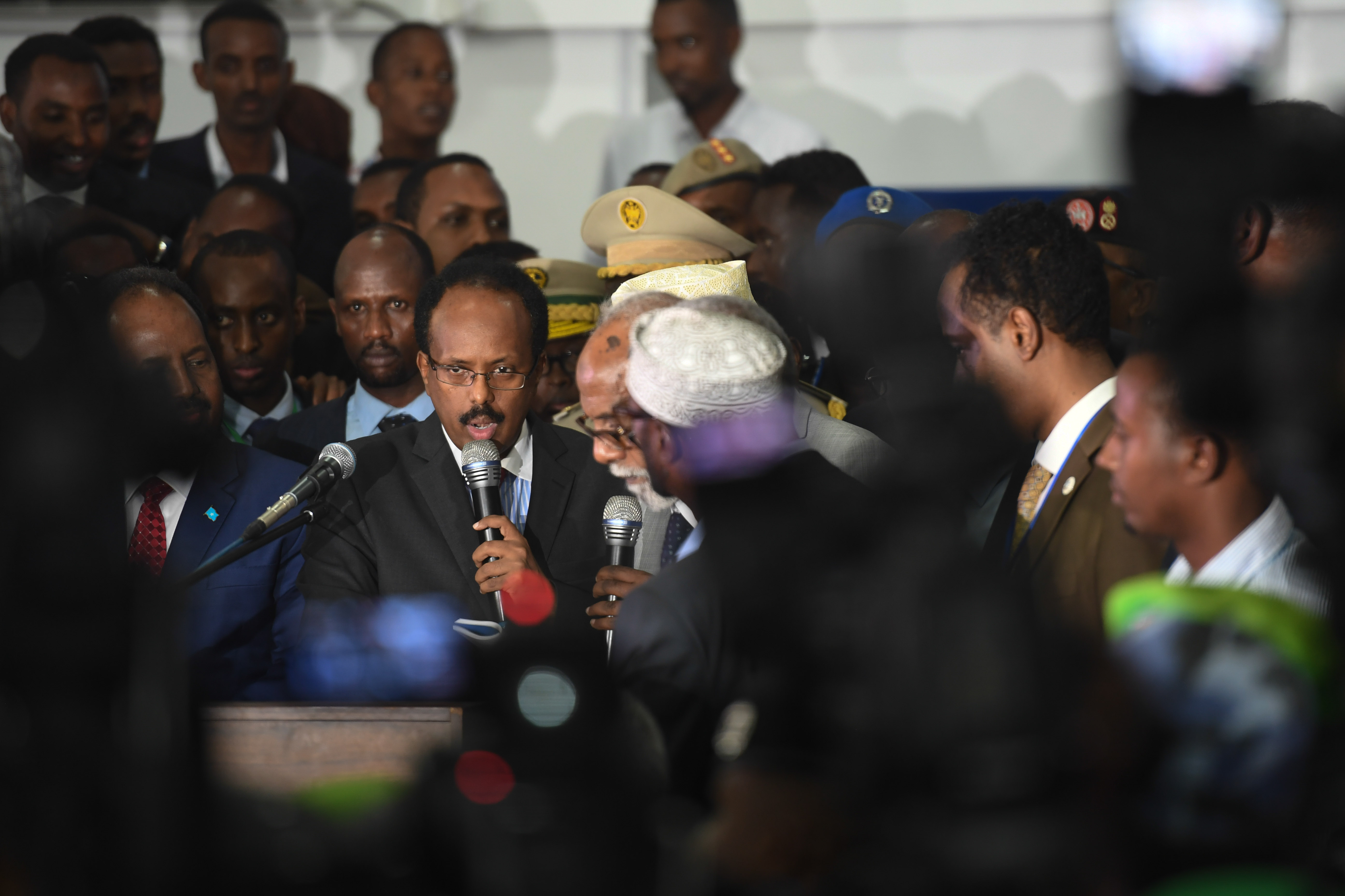 The new president of Somalia Mohamed Abdullahi Farmajo is sworn in after he was declared the winner of the presidential election held at the Mogadishu Airport hangar in Mogadishu on February 8, 2017. AMISOM Photo/ Ilyas Ahmed.